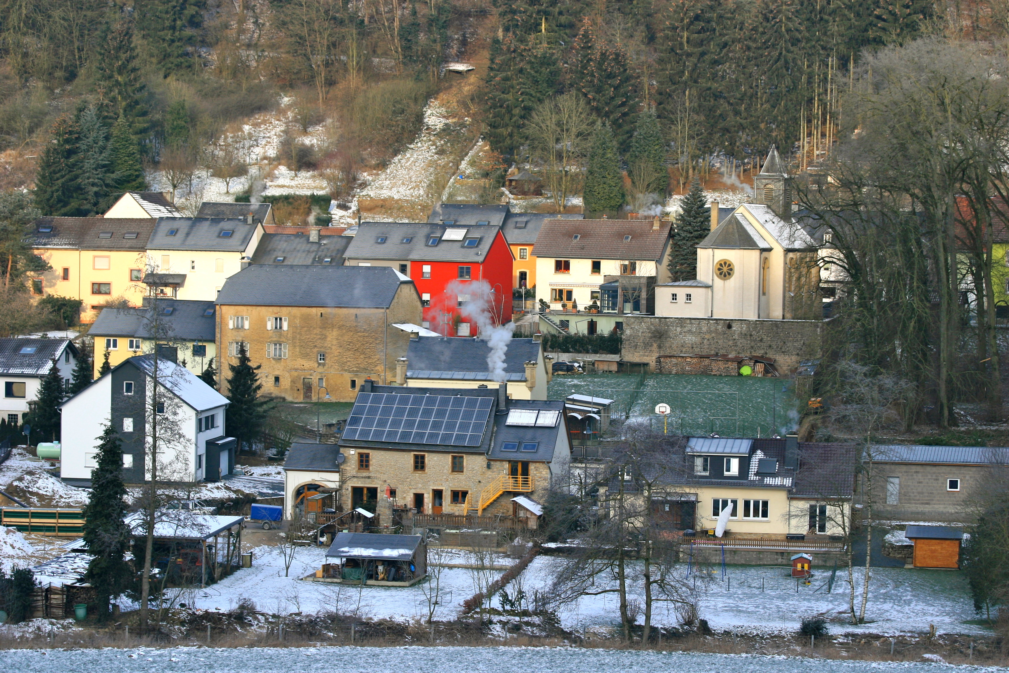 The village of Schoenfels (part of Mersch), pop. 208